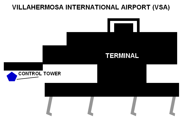 Villahermosa International Airport terminal.